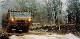 Testing mobility of U.S. Army vehicles in thawing conditions.